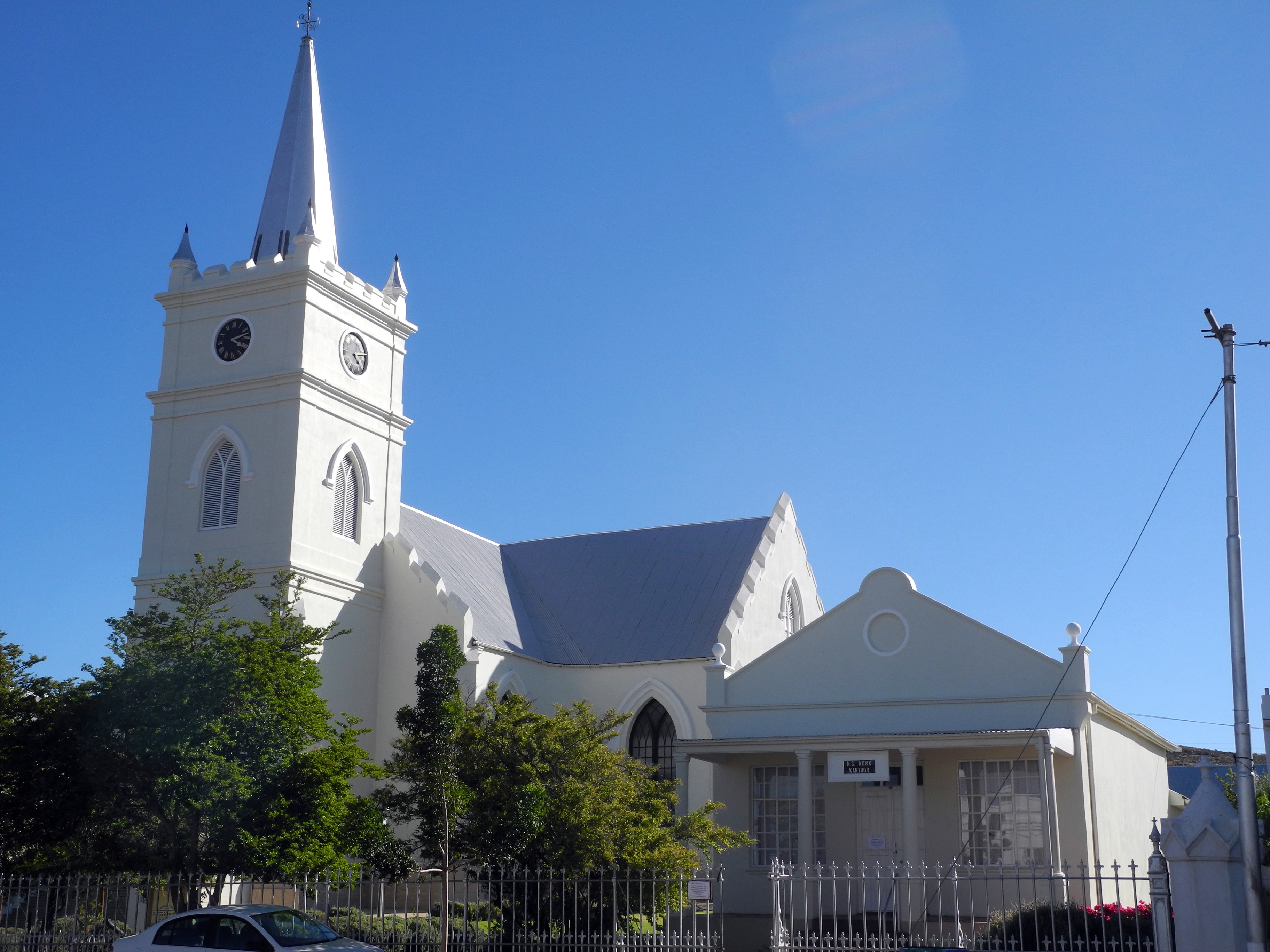 Dutch Reformed Church in Prince Albert. This media shows a South African Protected Site with SAHRA file reference 9/2/076/0019. This media shows a South African Protected Site with SAHRA file reference 9/2/076/0020.